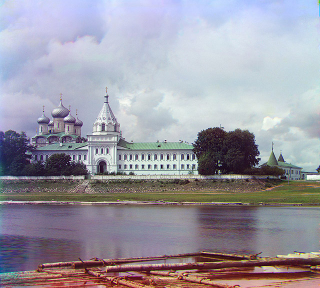 The Ipatievsky monastery in Kostroma contains buildings from 16th to 19th centuries.